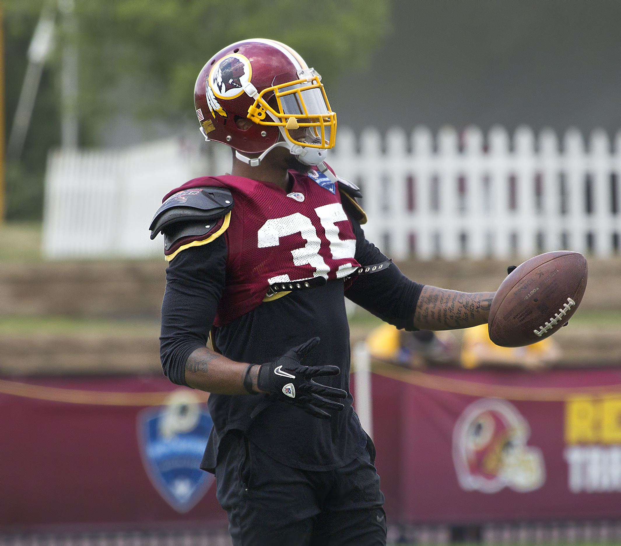 Washington Redskins cornerback, Dashaun Phillips, at training camp in 2016 preseason.